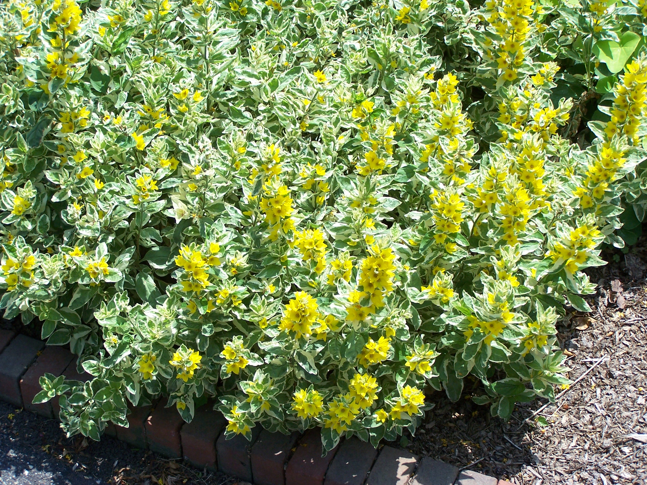 lysimachia punctata Spotted Loosestrife at Minnesota Landscape Arboretum